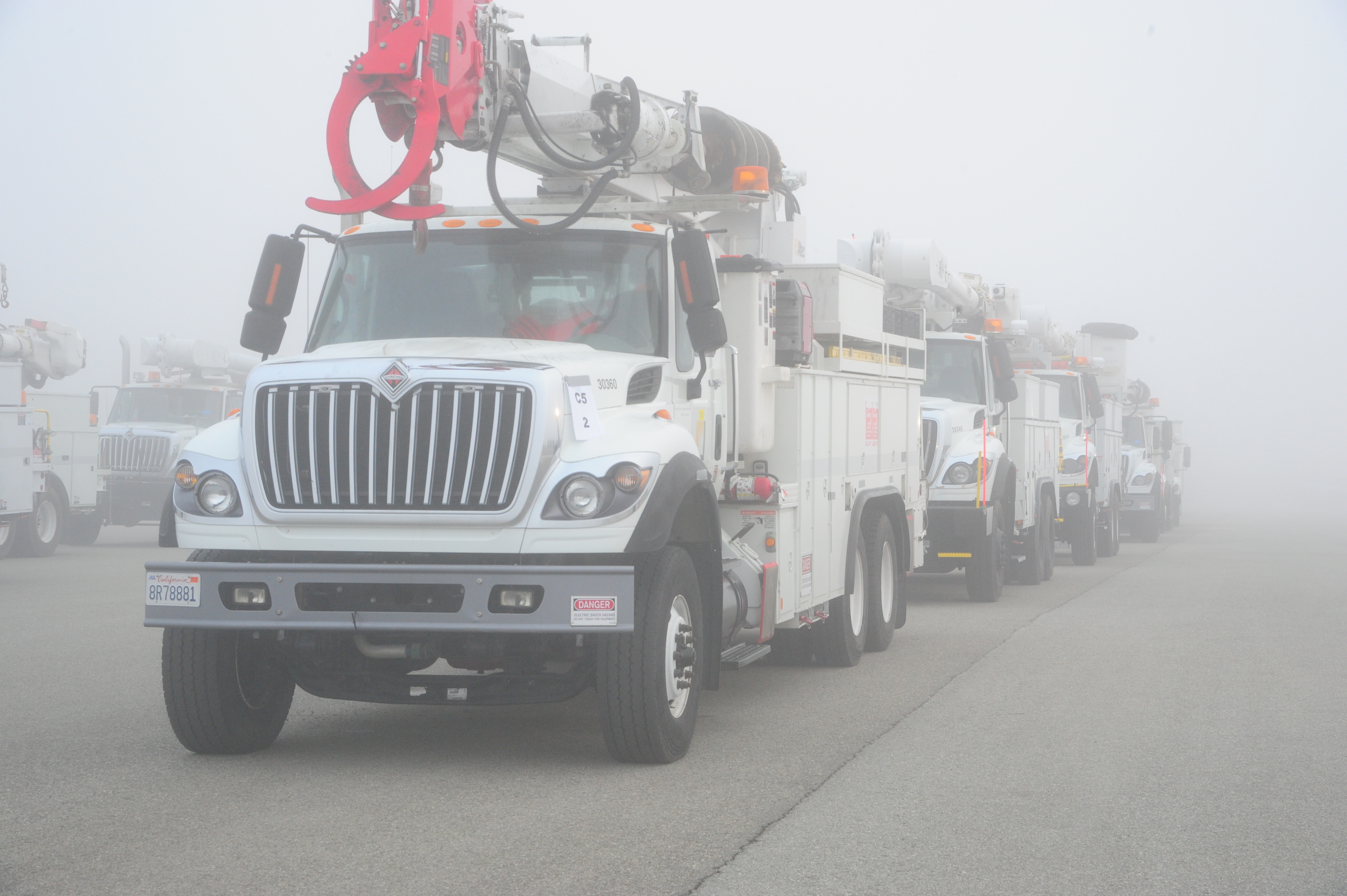 Southern California Edison Vehicles are staged in the early morning fog for immediate load onto a C-17 Globemaster III aircraft at March Air Reserve Base, Calif., Nov. 1, 2012. U. S. Air Force Reservists and technicians join with Southern California Edison in answering the President's call to 'lean forward' with Hurricane Sandy relief efforts at March Air Reserve Base, Calif., November 1, 2012. Military bases across the nation are mobilizing to the northeast region of the country to restore electricity and provide humanitarian assistance, as currently more than 2 million people are without power. (U.S. Air Force photo by Master Sgt. Roy Santana/Released) 4th Combat Camera Squadron Photo by Master Sgt. Roy Santana Date Taken:11.01.2012 Location:MARCH ARB, CA, US Read more